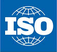 Logo of the International Organization for Standardization